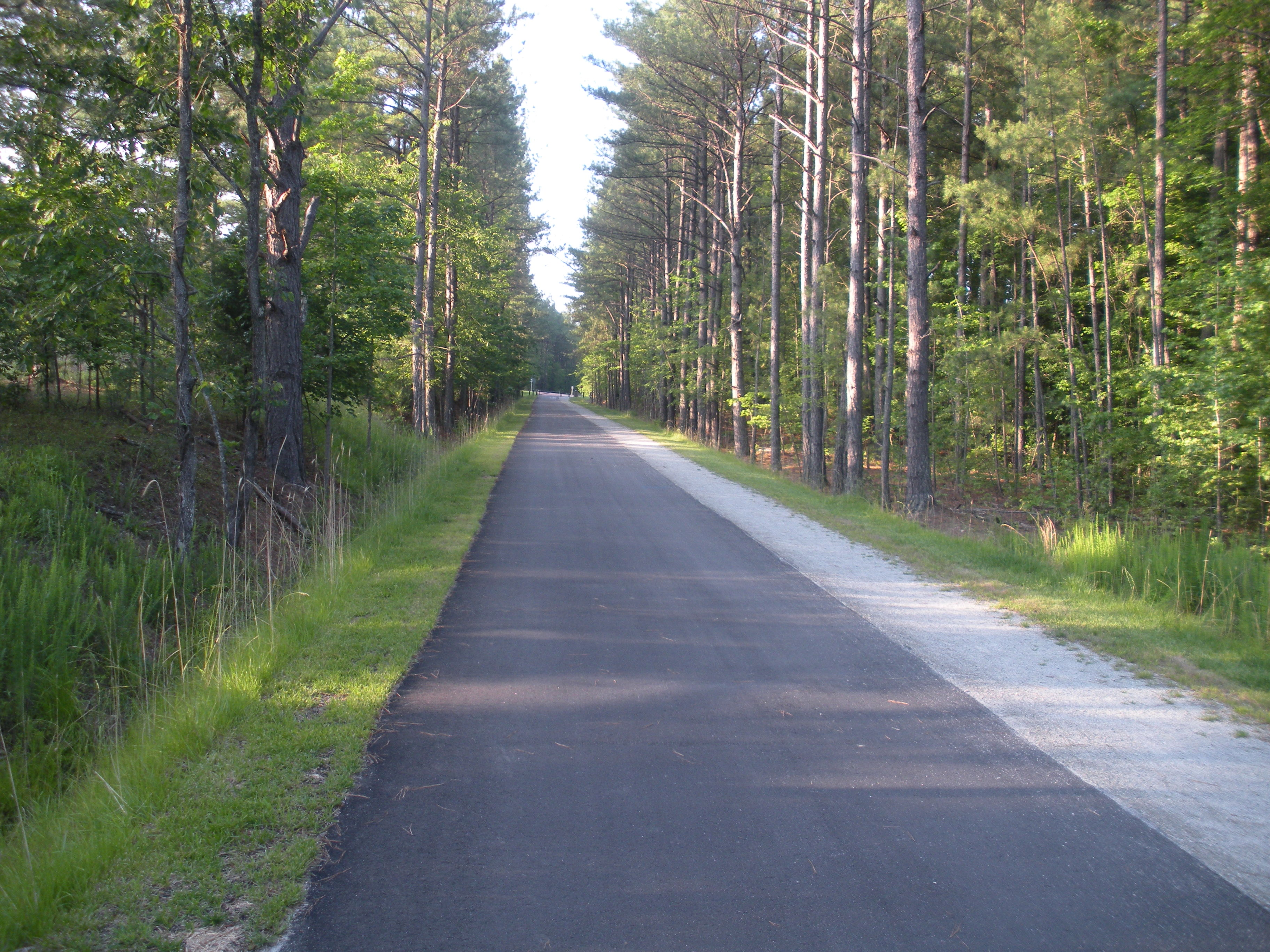 A typical section of the American Tobacco Trail in Chatham County, NC. The section was improved to asphalt and granite screenings in 2009.